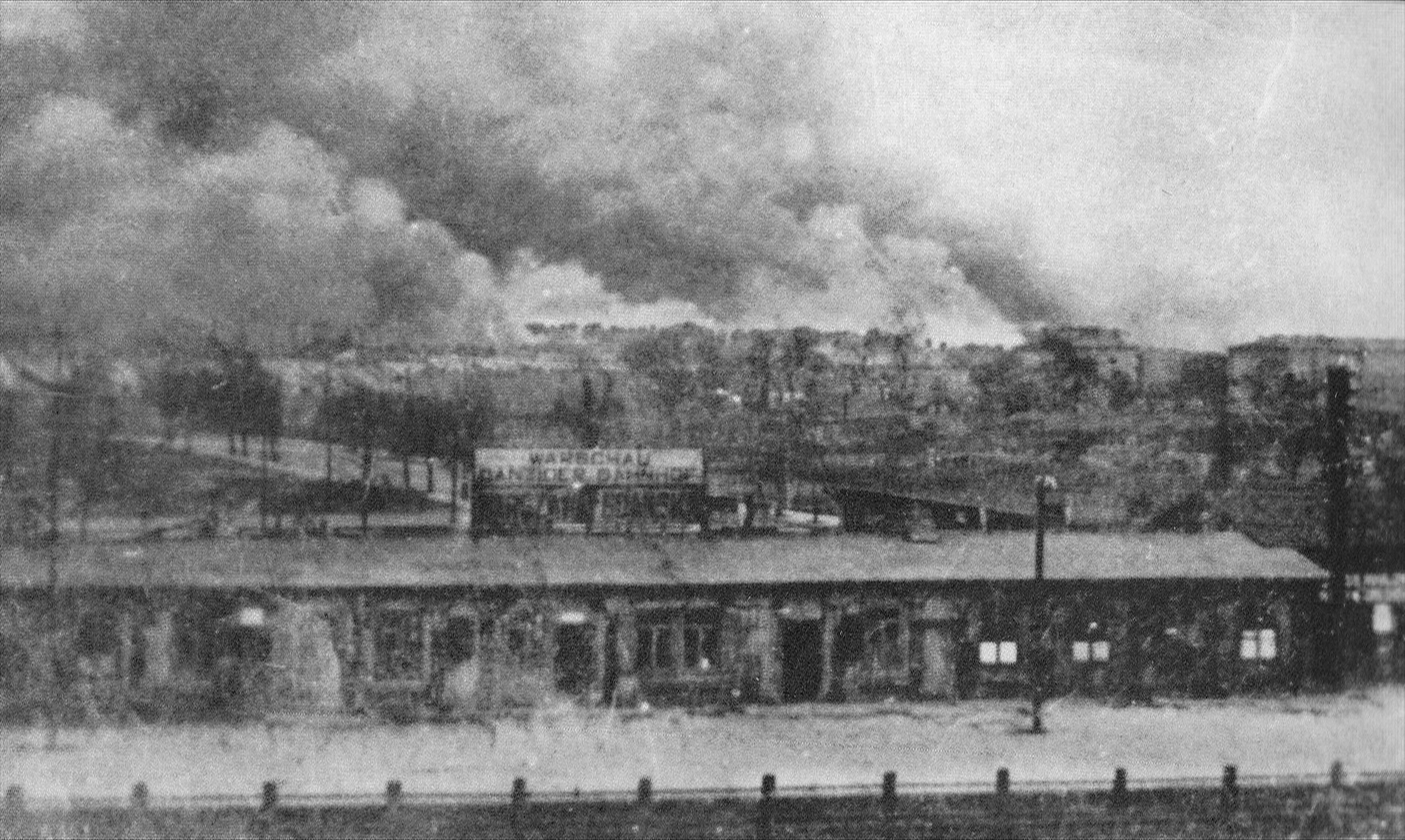 Gdański railway station and burning ghetto in Warsaw